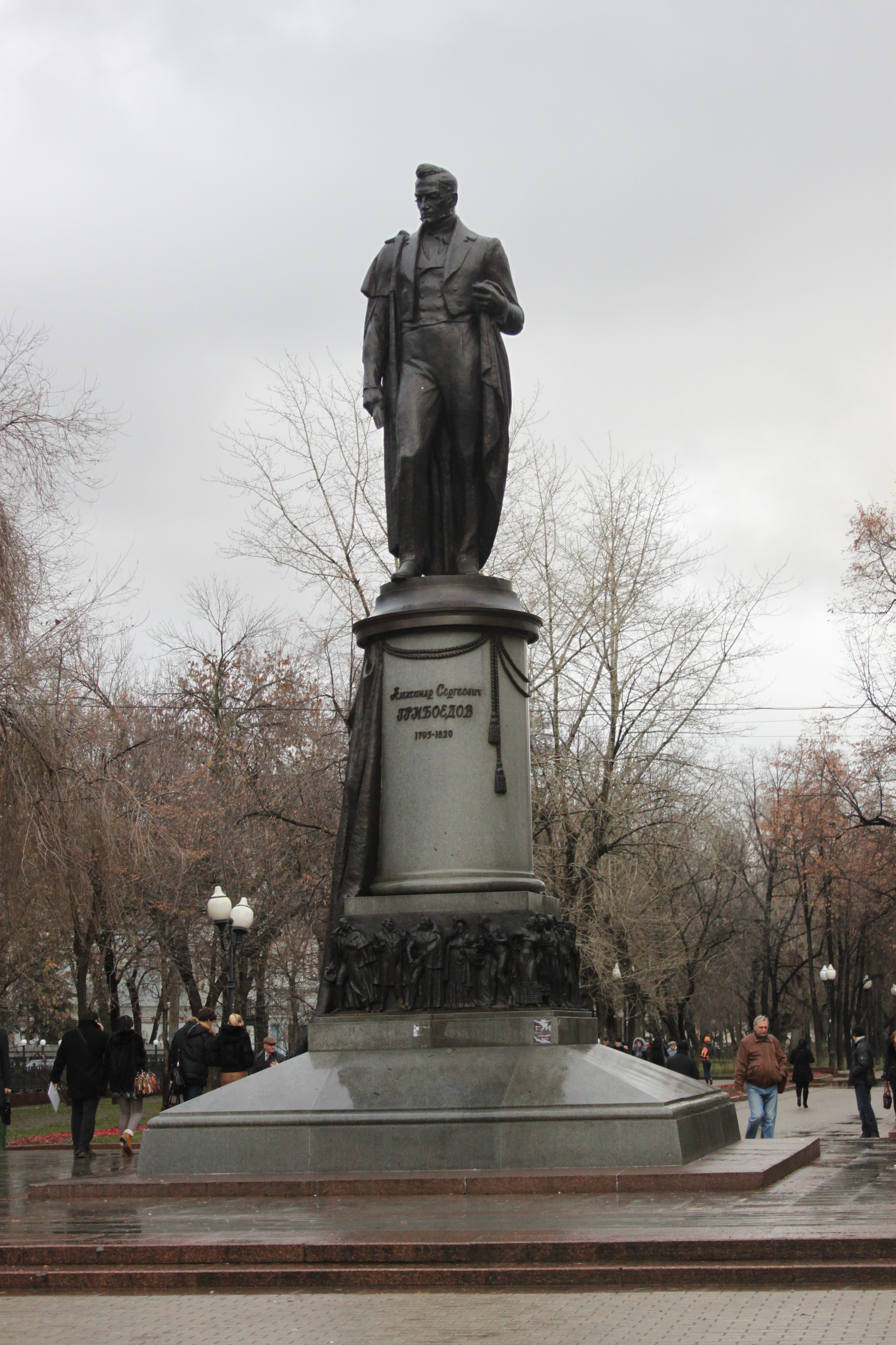 Moscow, Russia, Aleksander Griboyedov monument, Россия, Москва, ЦАО, Басманный район, Чистопрудный бульвар, Памятник Грибоедову Александру Сергеевичу